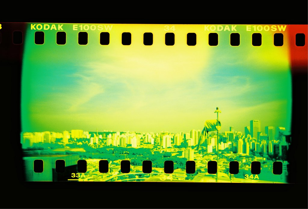 camera: Lomo Holga 120SF | film: Kodak Ektachome E100SW 100 | xpro [not edited]